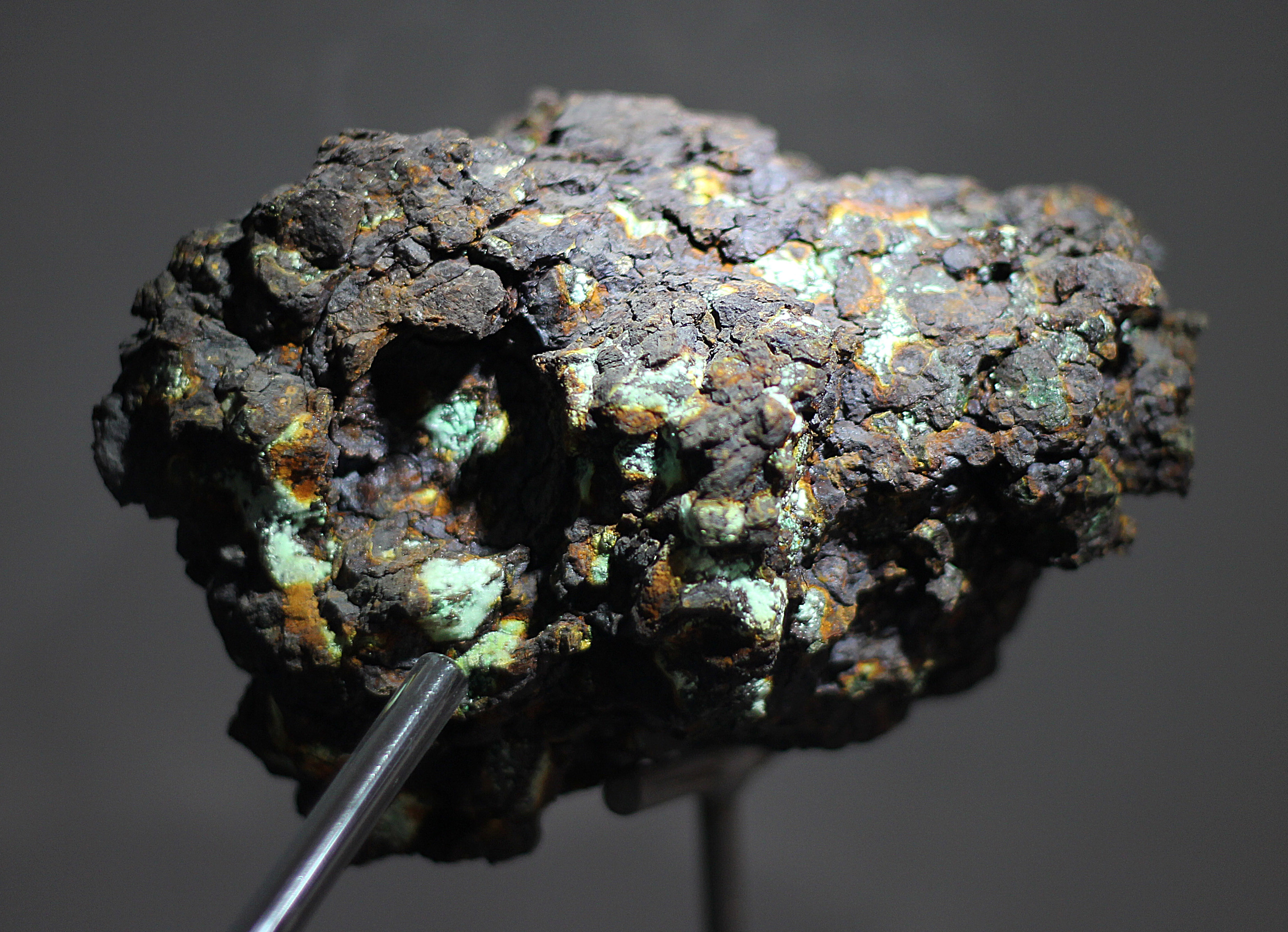 The meteorite of Vaca Muerta fell in a zone of coastal influence of the Atacama Desert where the humidity goes in land in the form of dense fog. This allowed the growth of wonderful crystalline formations of apple green color or greenish white vitrous luster. Morenosite crystals, a heptahydrated nickel sulfate, are the result of a mixture of terrestrial sulfates with extraterrestrial nickel during thousands of years of adequate humidity conditions. Museo del Meteorito, San Pedro de Atacama, Chile.